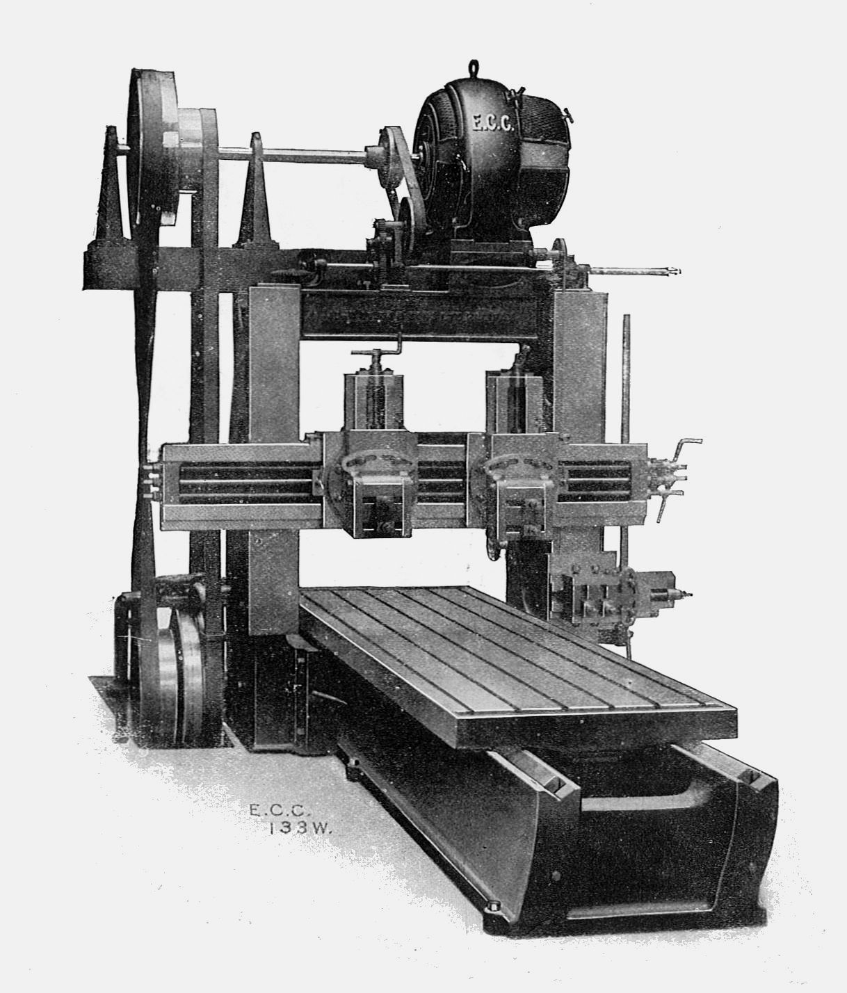 Application of Motor Drive to a Planing Machine